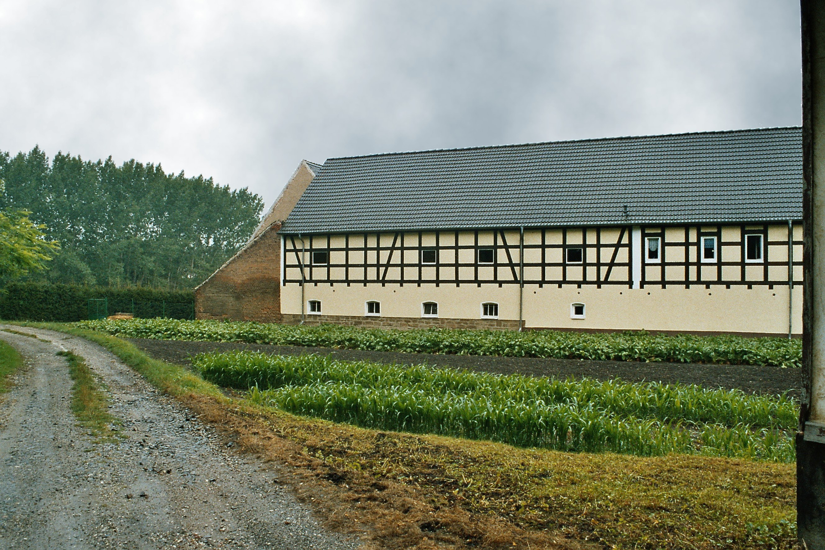 Luckenau (Zeitz)- half-timbered house